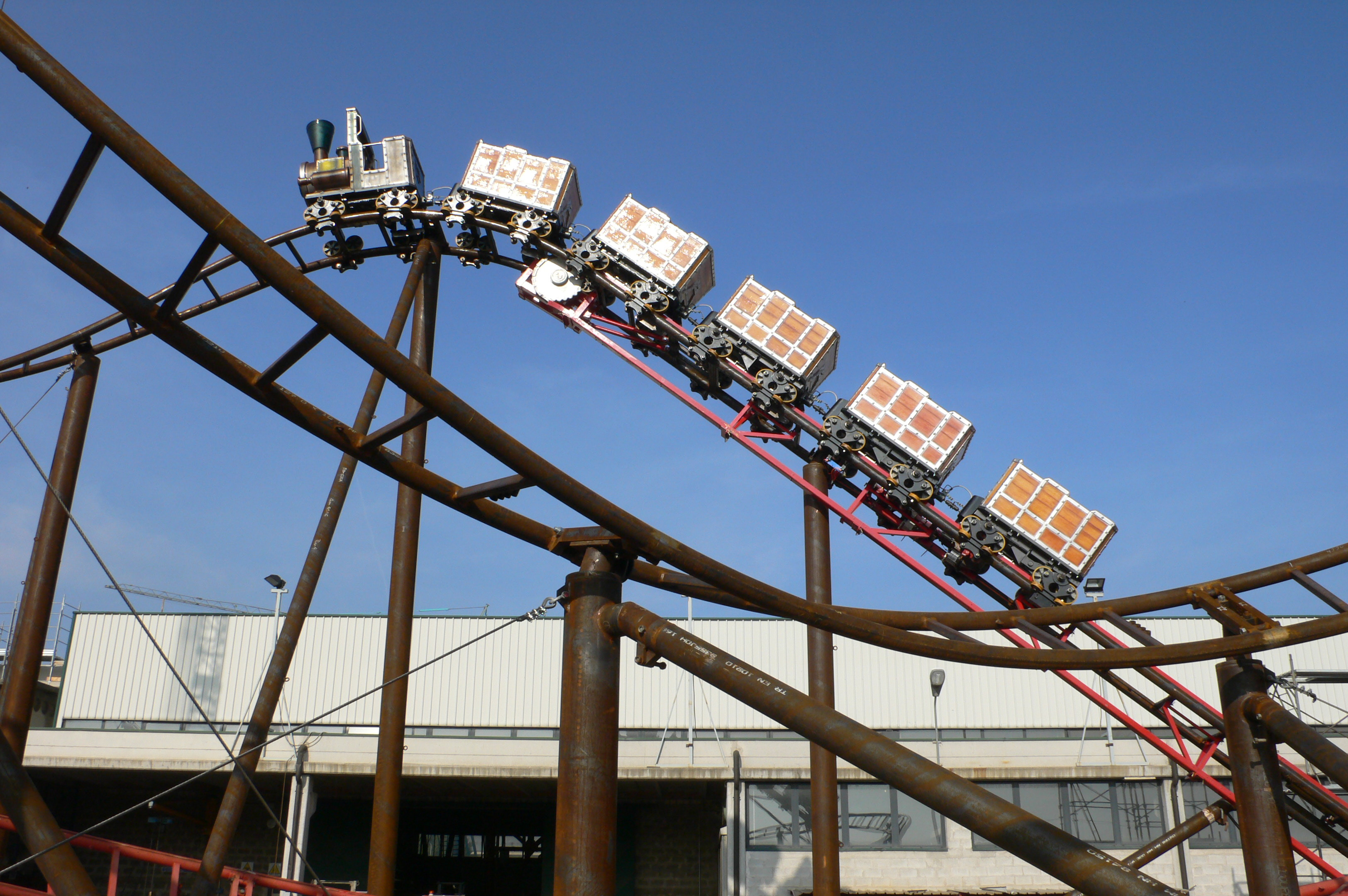 Test of the family coaster Run Away Train